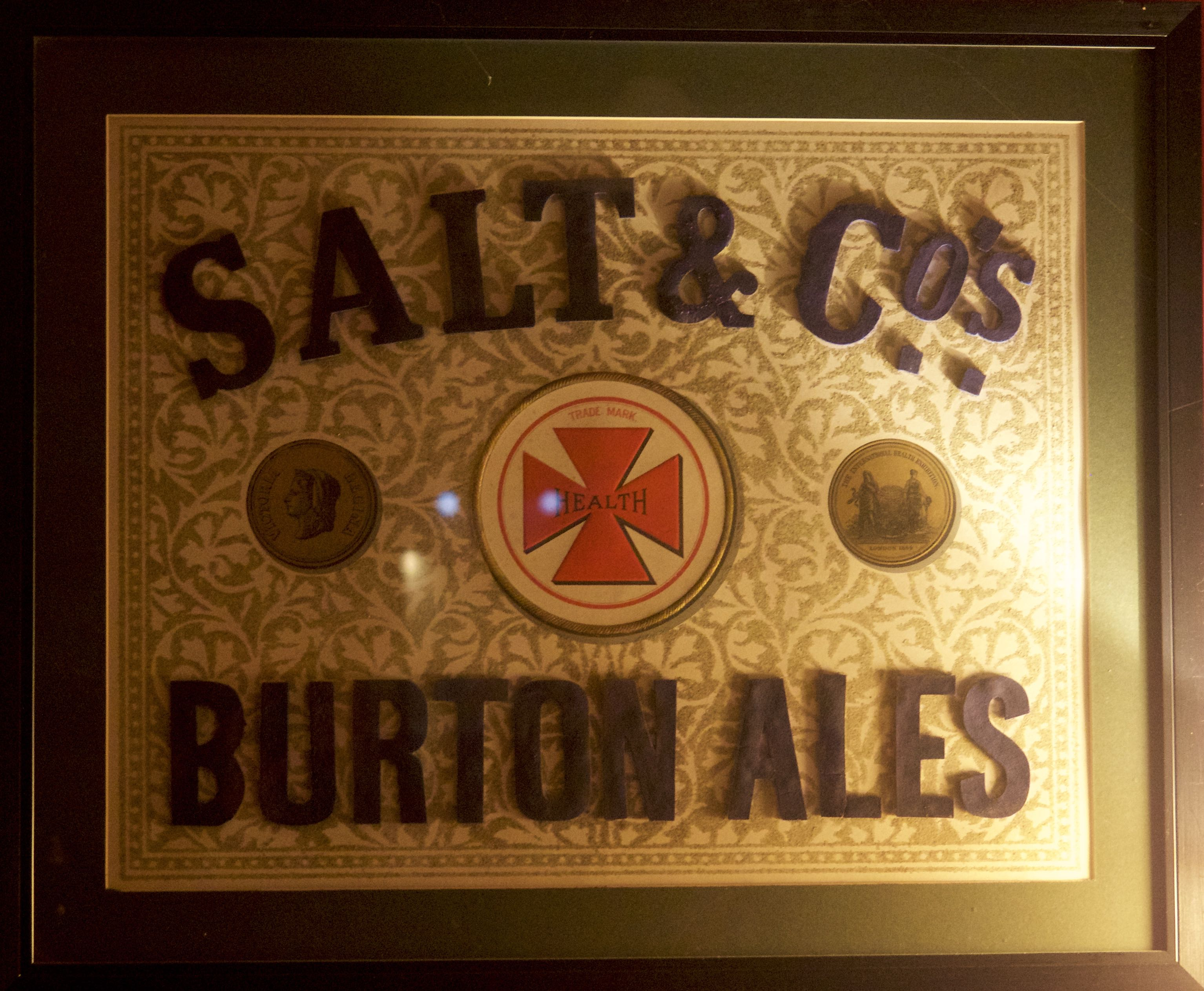 Salts framed picture showing the Maltese cross trademark